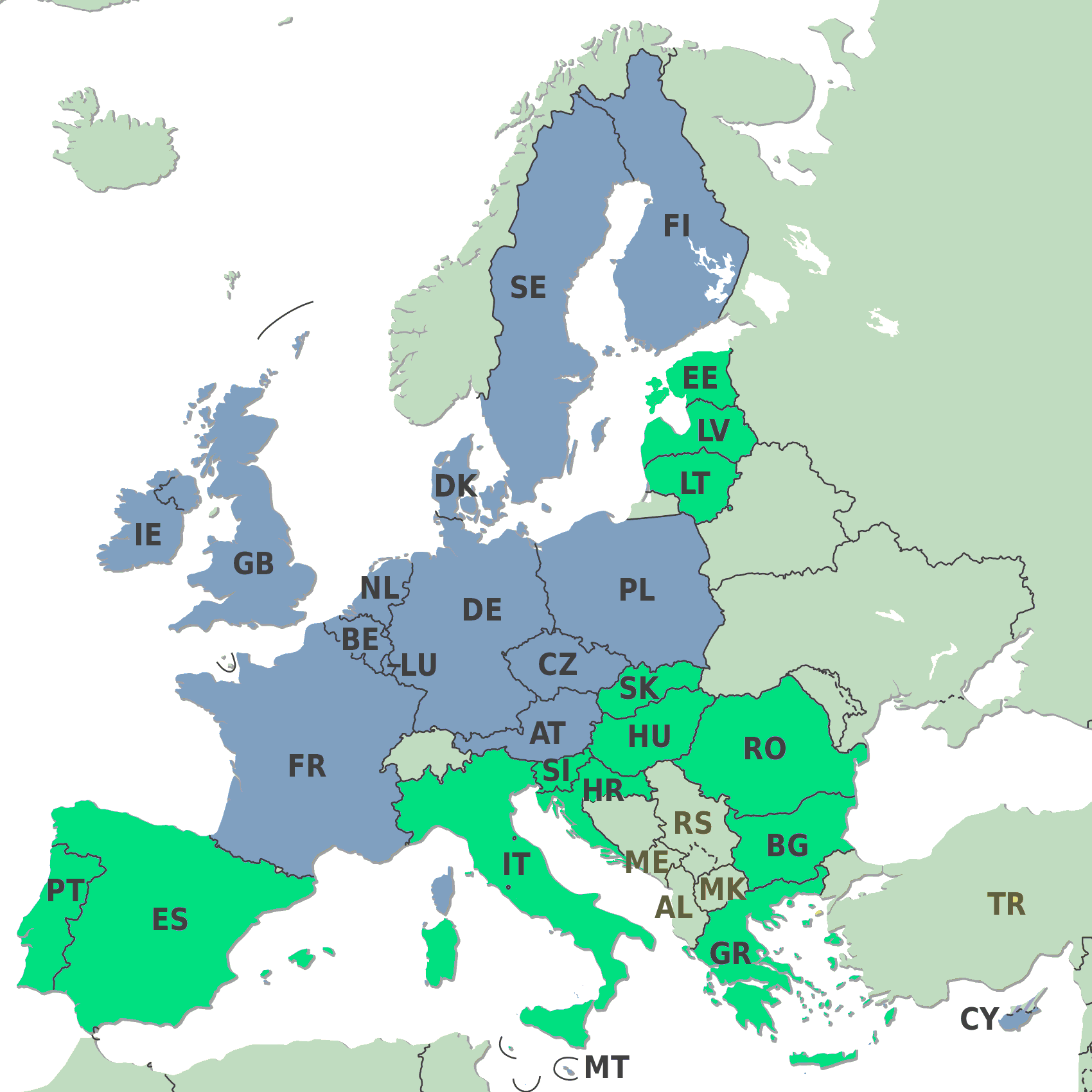 EU member states with prevailing semi-subsistent agriculture in 2005-2007 (green); other EU states (blue); non-EU states (grey)